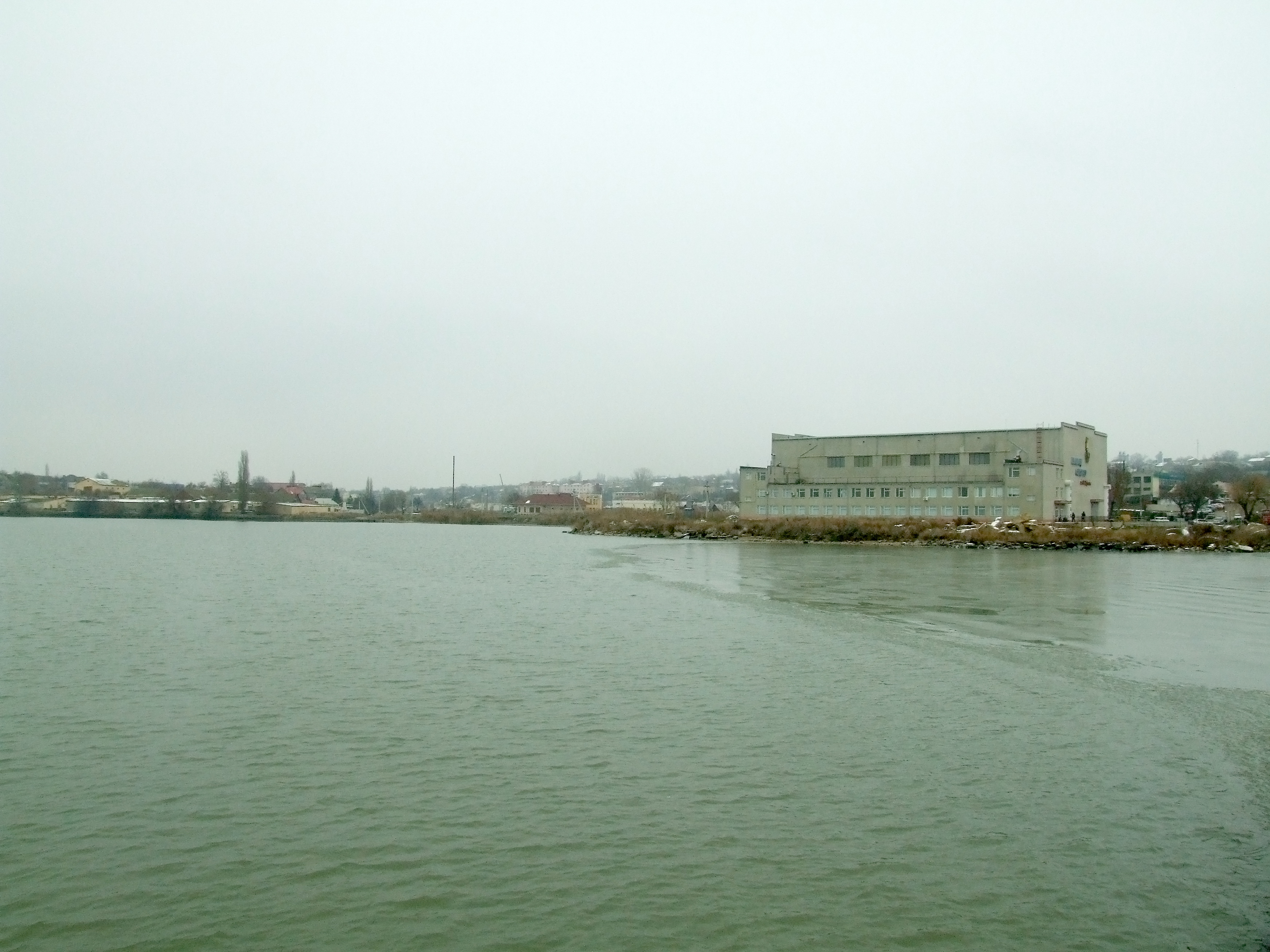 A view of Ovidiopol, Ovidiopolskyi Raion, Odessa Oblast, Ukraine